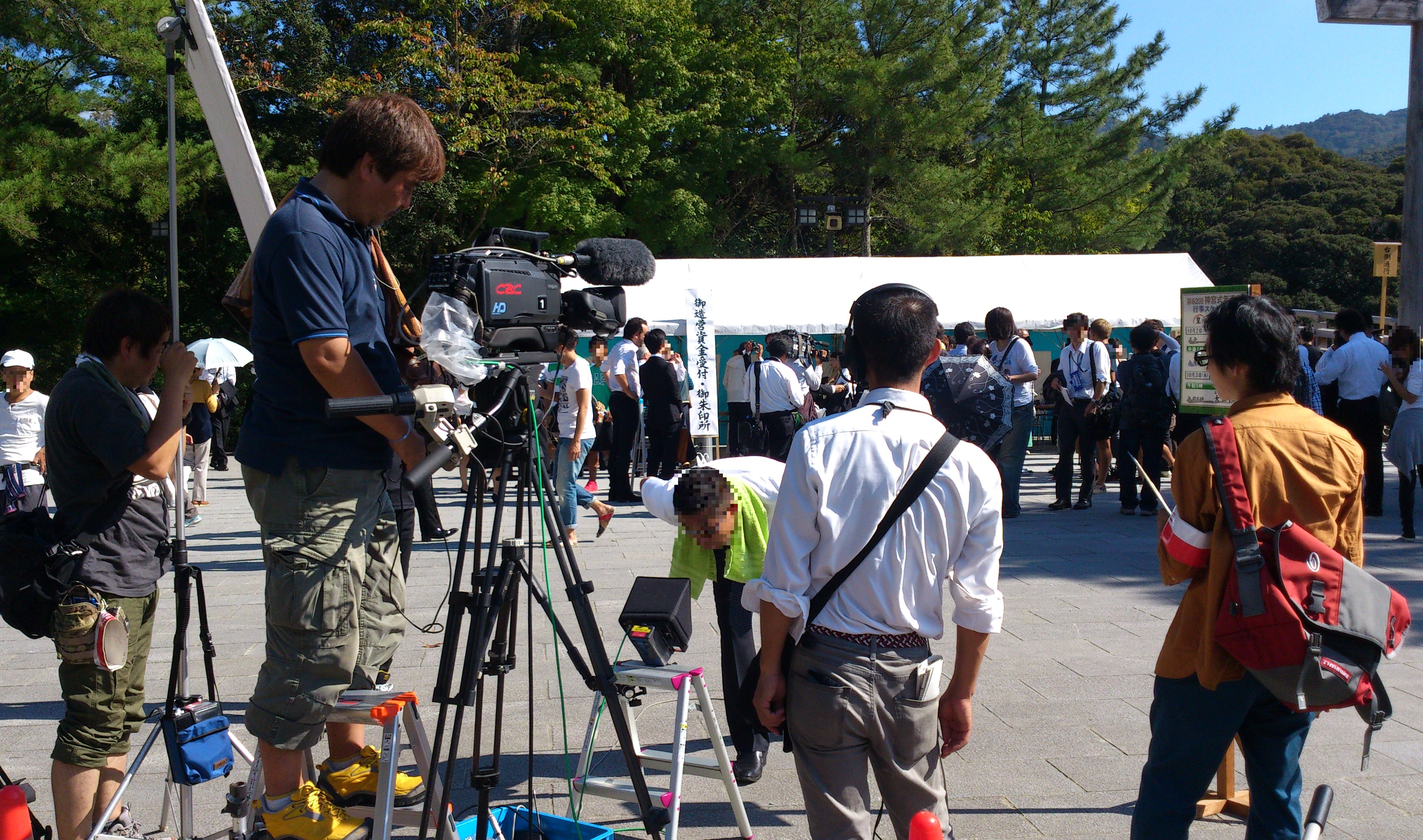 They are Japanese TV crew who was collecting news about Jingu Shikinen Sengu.